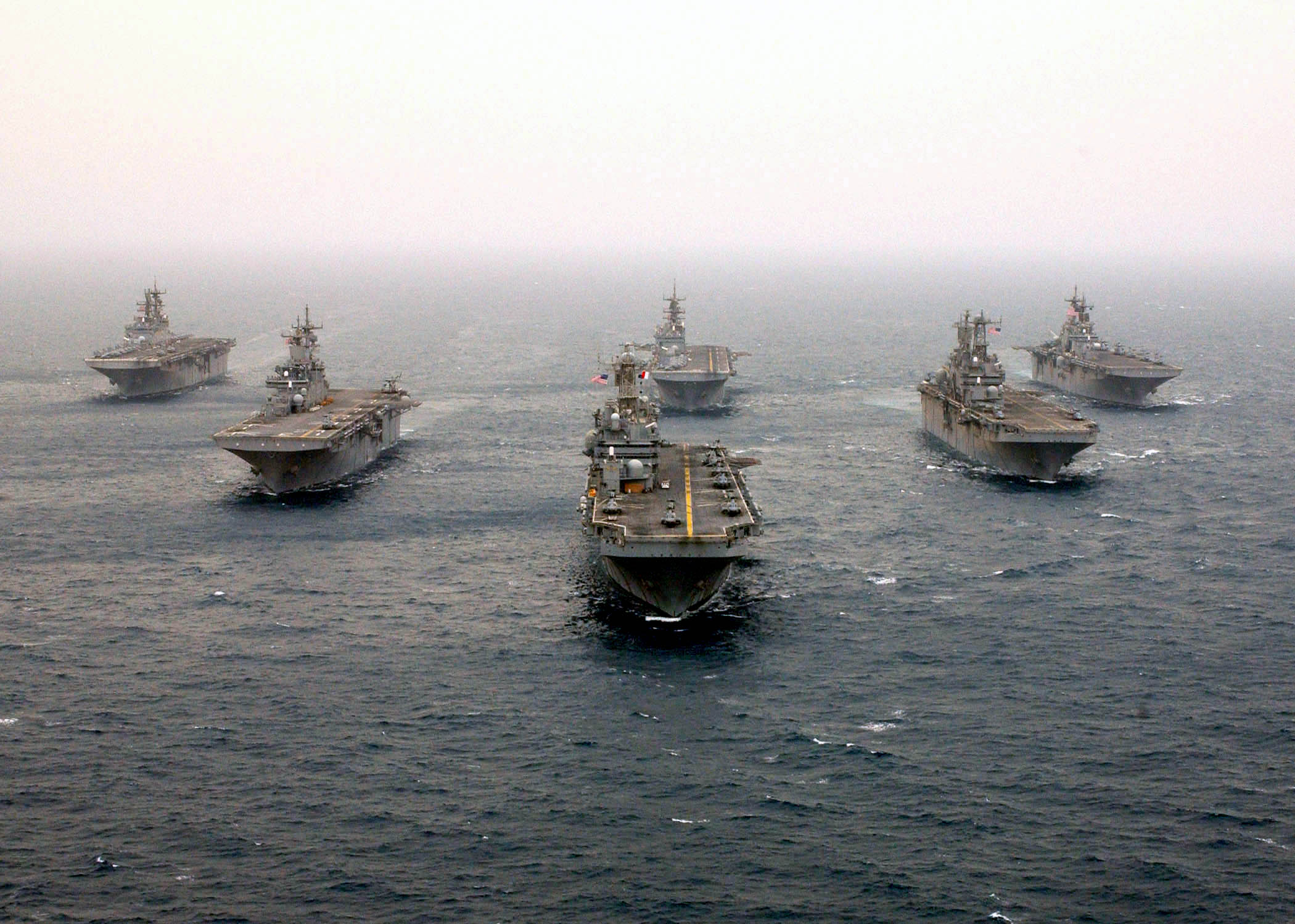 The amphibious assault ships of Commander, Task Force Fifty One (CTF-51) come together in an unprecedented formation during operations in the North Arabian Gulf. This marked the first time that six large deck amphibious ships from the East and West coasts have deployed together in one area of operation. Led by the flag ship USS Tarawa (LHA 1), the ships are (from left to right): USS Bonhomme Richard (LHD 6), USS Kearsarge (LHD 3), USS Bataan (LHD 5), USS Saipan (LHA 2), and USS Boxer (LHD 4). CTF-51 led Navy amphibious forces in the Arabian Gulf region during Operation Iraqi Freedom. The 32 ships of CTF-51 composed the largest amphibious force assembled since the Inchon landing, during the Korean War.